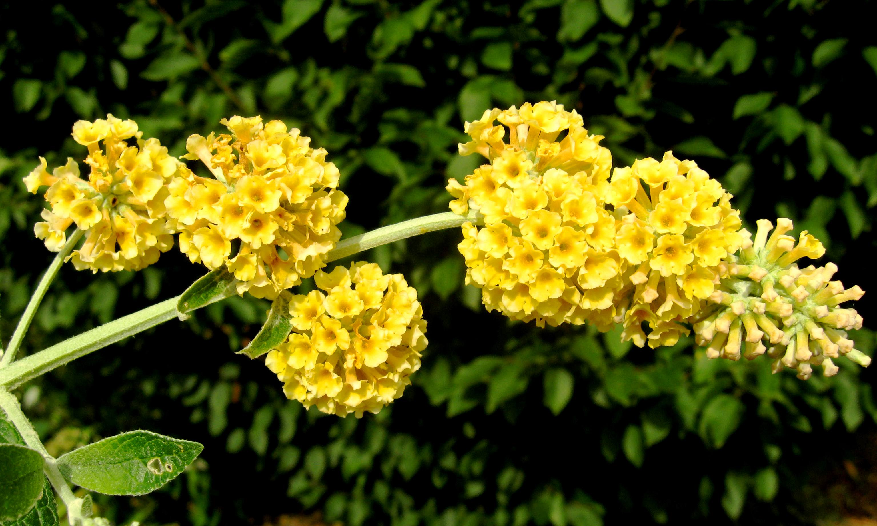 Photo taken at Longstock Park, UK, August 2012.